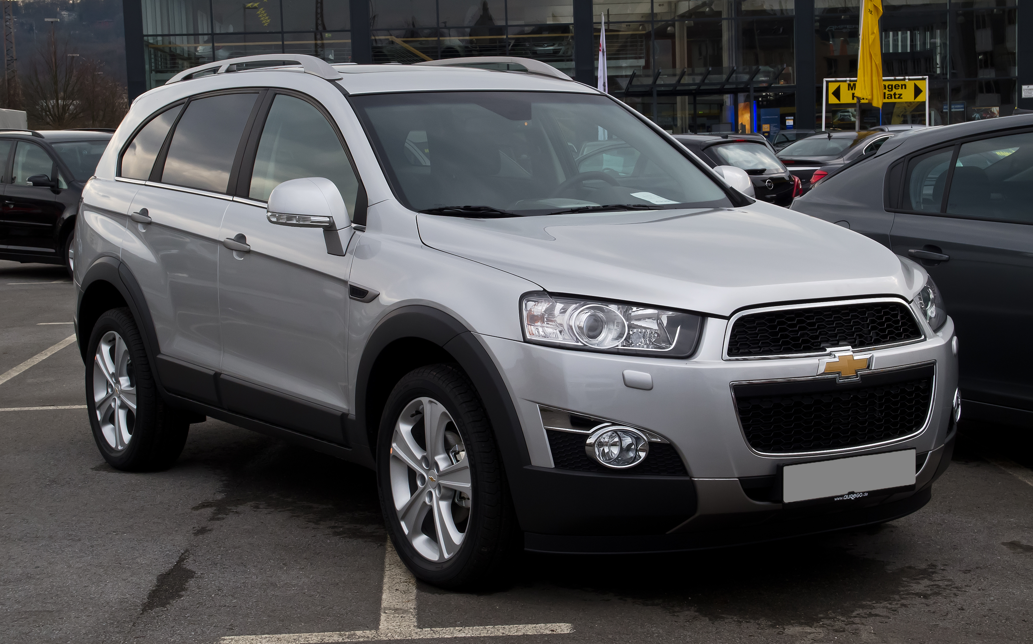 Chevrolet Captiva LTZ 2.2 D 4WD (Facelift)